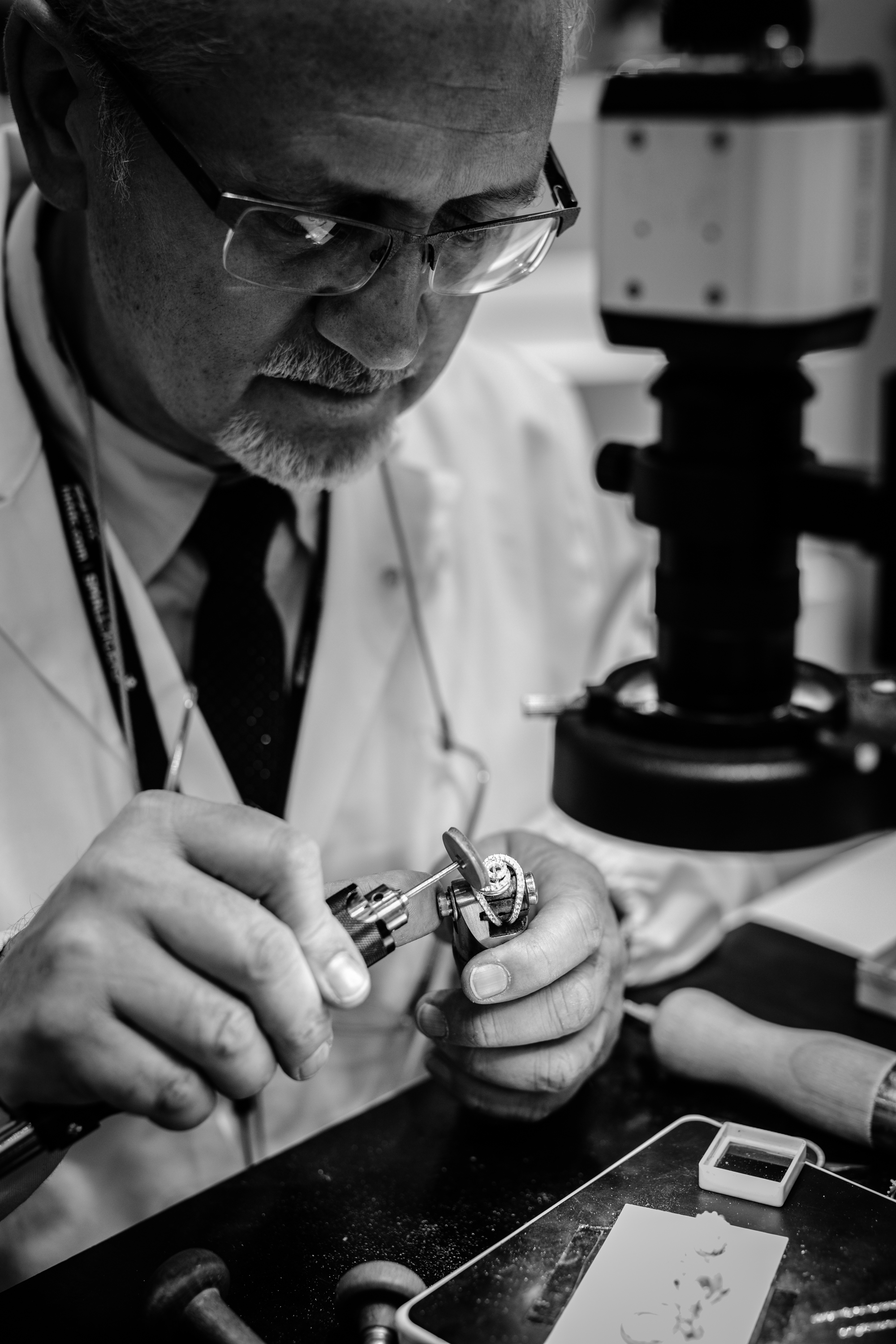 Gem-setter